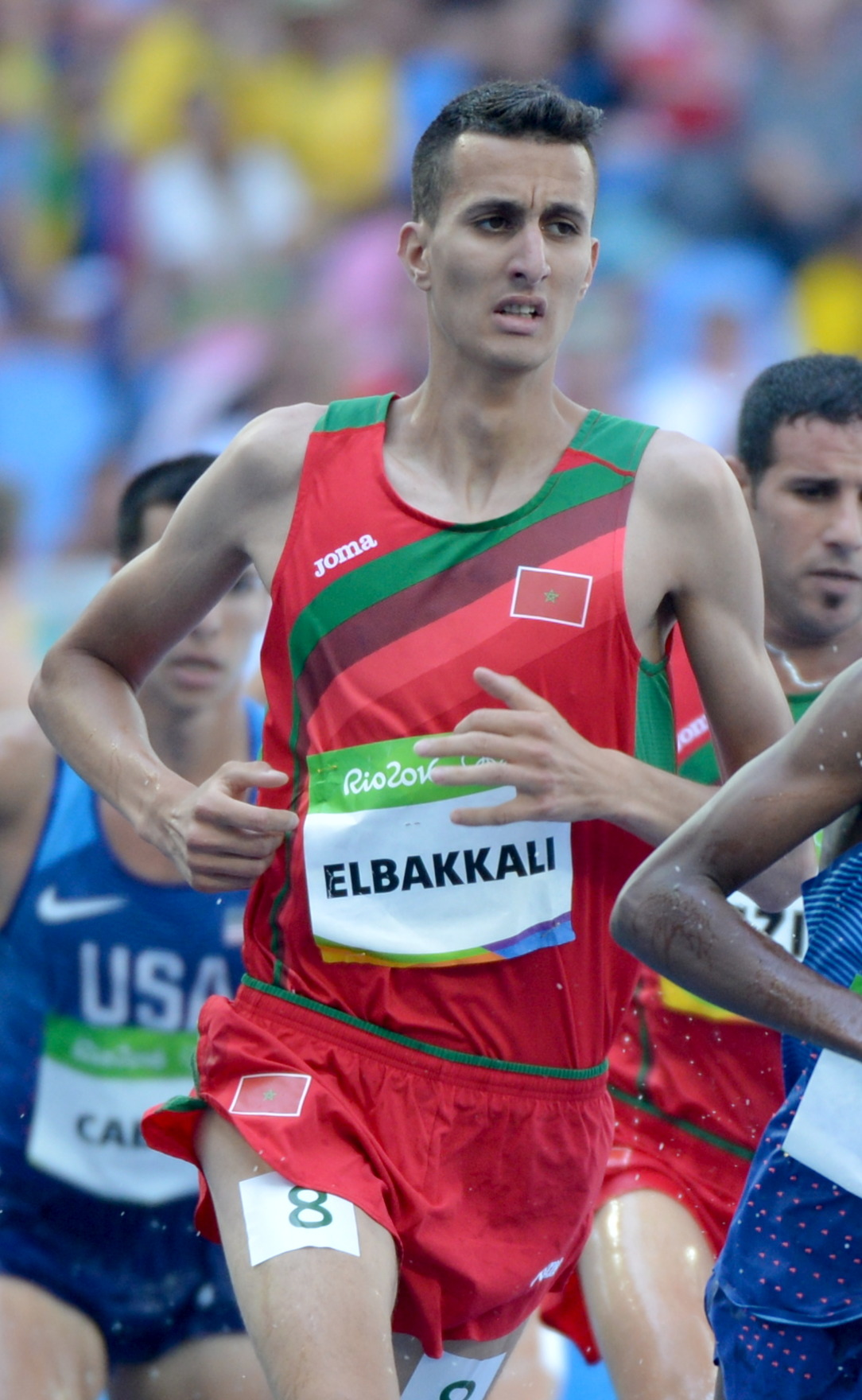 Soufiane El Bakkali in the men's 3,000-meter steeplechase on Aug. 17 at the 2016 Rio Olympic Games in Rio de Janeiro. U.S. Army photo by Tim Hipps, IMCOM Public Affairs #SoldierOlympians #ArmyOlympians #ArmyTeam #GoArmy #TeamUSA #ArmyStrong #RoadToRio